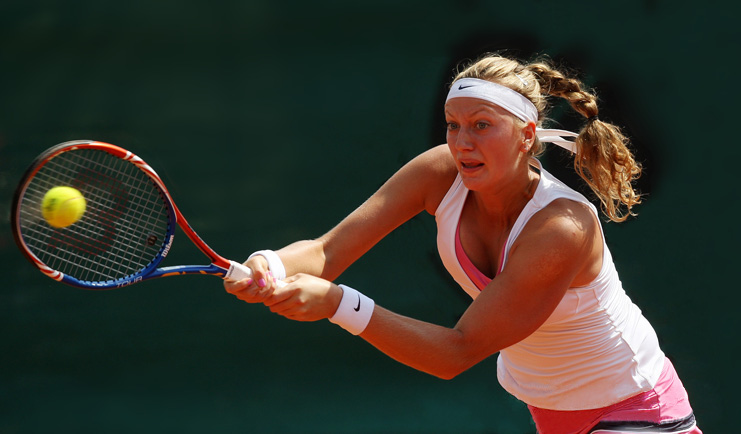 Czech tennis player Petra Kvitova at the 2011 Sparta Prague Open, where she finished as Runner-up